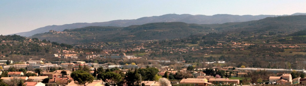 the town of Apt and the Luberon behind, France